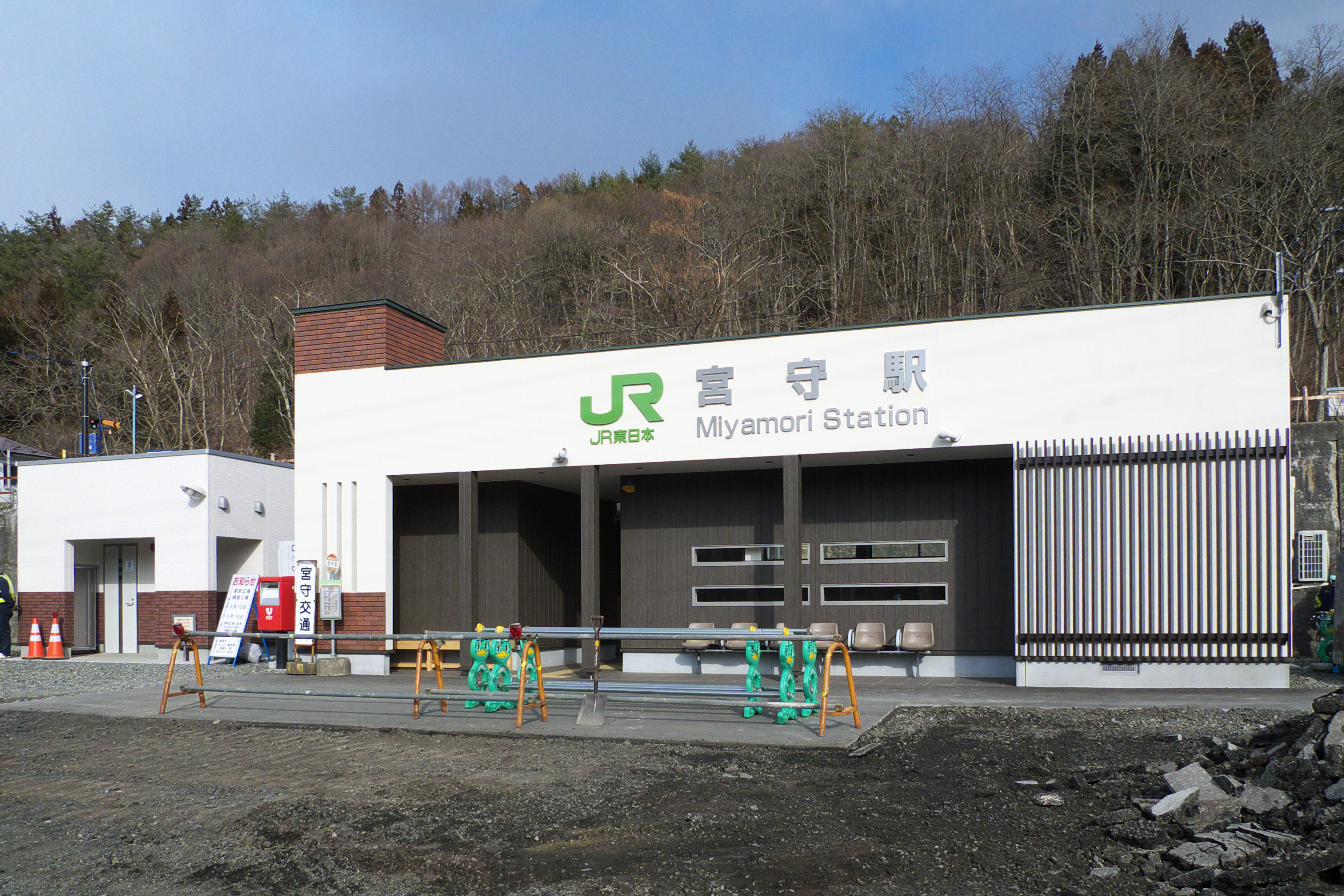 East Japan Railway Company (JR East) Miyamori Station on the Kamaishi Line